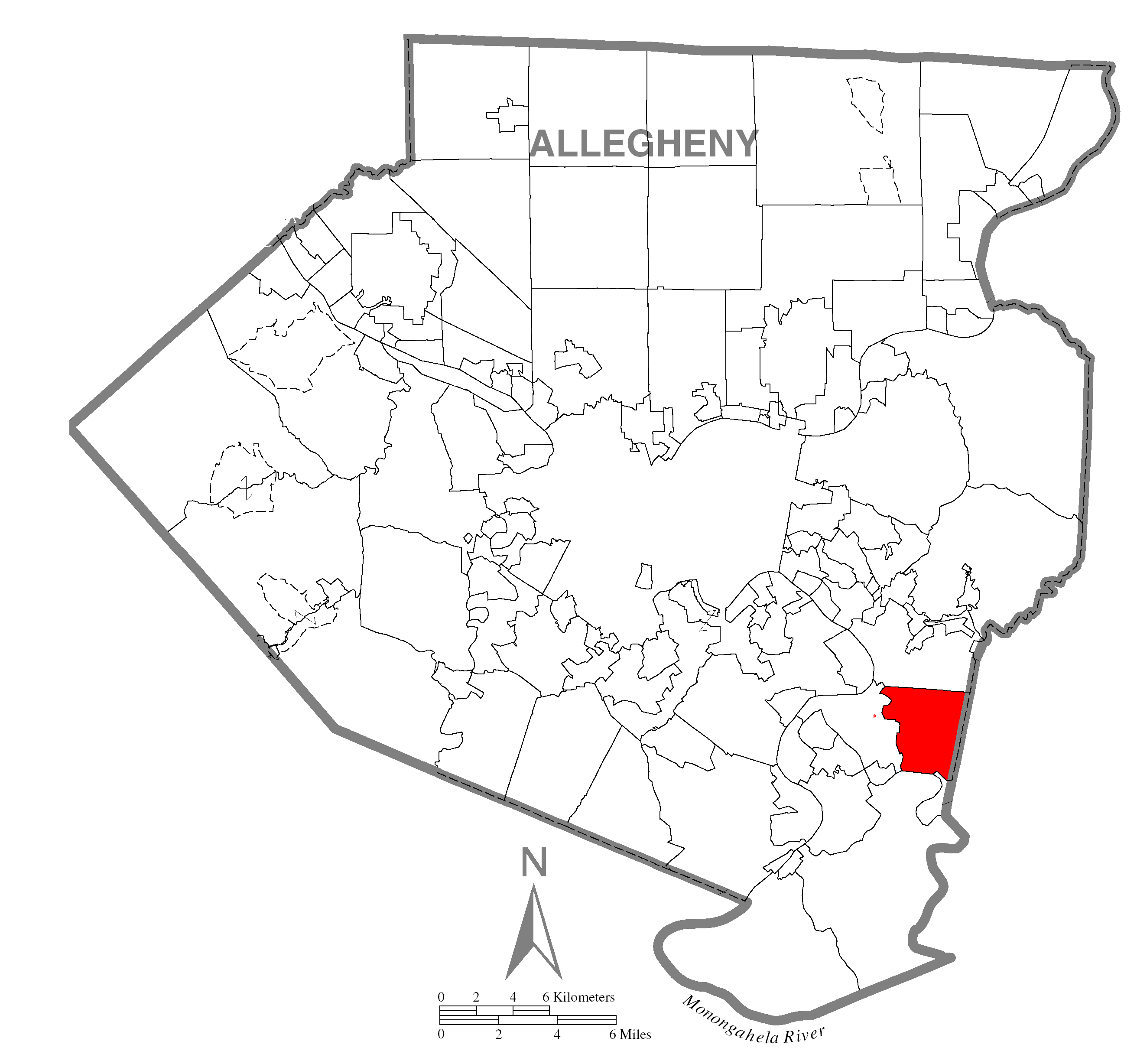 A map of Allegheny County showing White Oak, Pennsylvania (alternate) highlighted on the map.